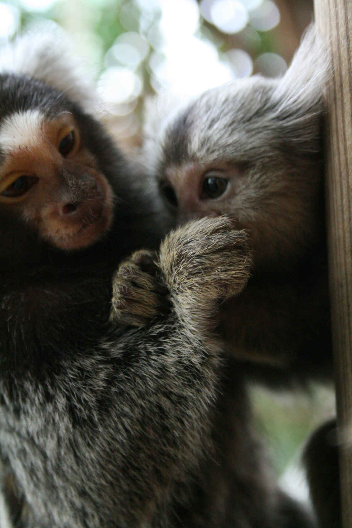 Adult and young Common Marmoset at the 'Haus des Meeres' in Vienna